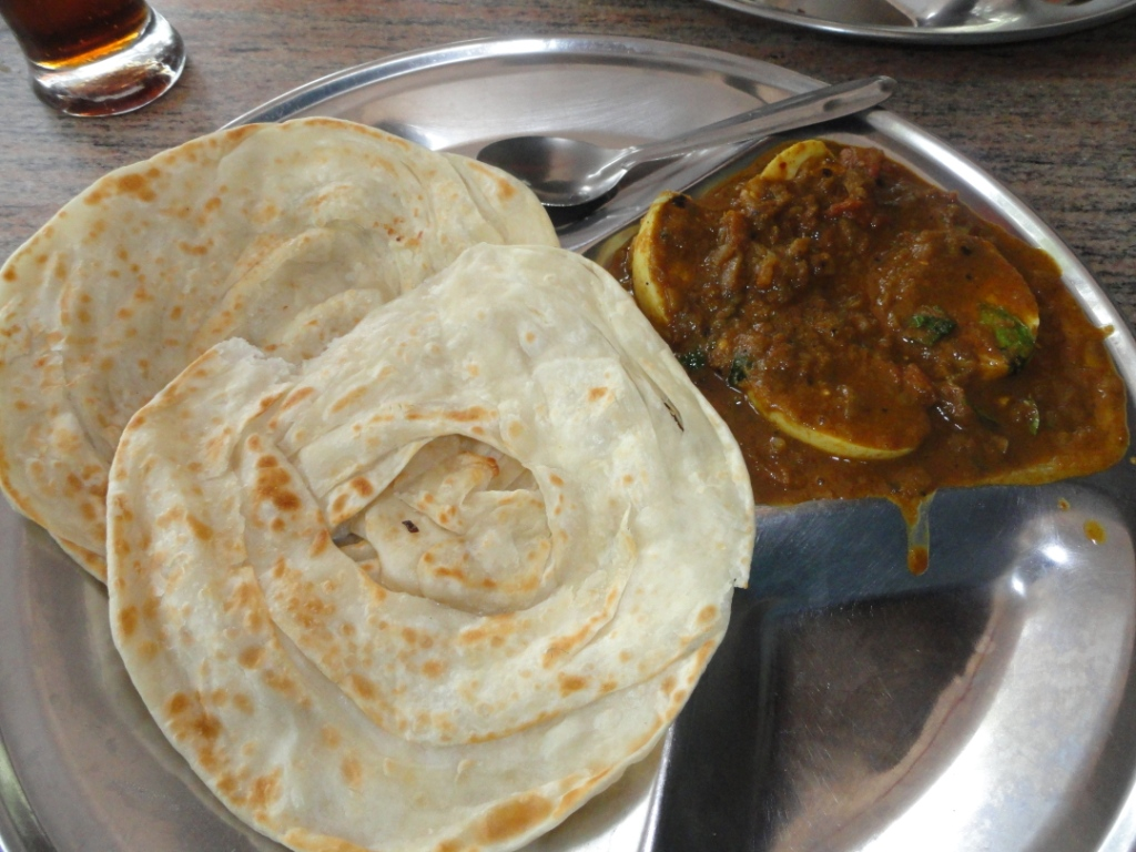 layered indian bread (parota) served with egg curry cooked Kerela style